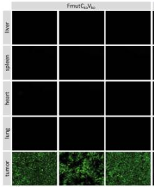 Recombinant SeV constructs (1×107 TCID50/100 µl) were injected intratumorally. 48 h post injection the mice were sacrificed, tumors were removed and indicator cultures (Vero cells) were infected with lysates from frozen tissue sections. Fluorescence microscopy pictures of the infected Vero cells were taken 72 hpi. Shown are representative picture for each animal.